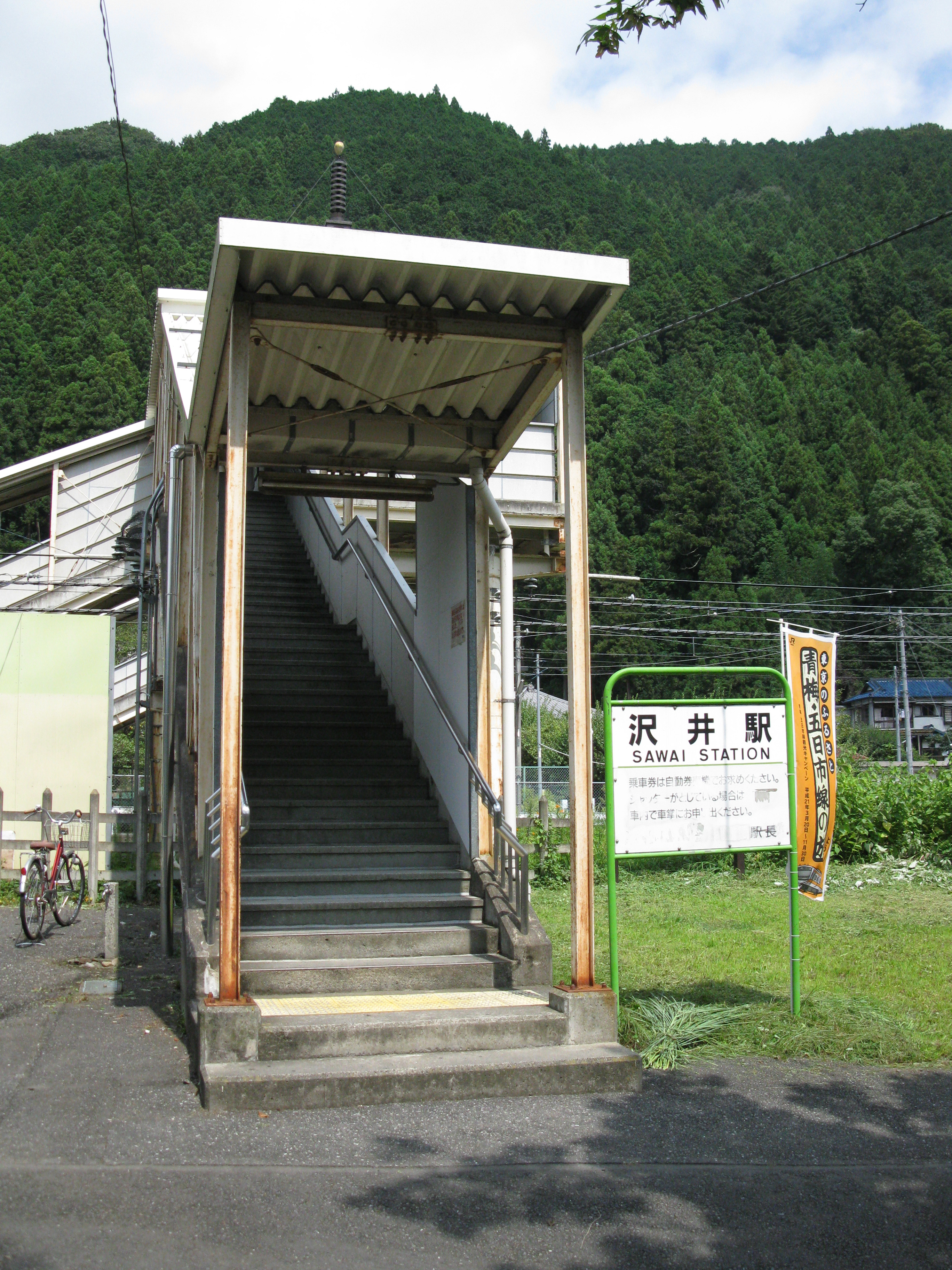 Sawai Station south entrance (East Japan Railway Ōme Line)